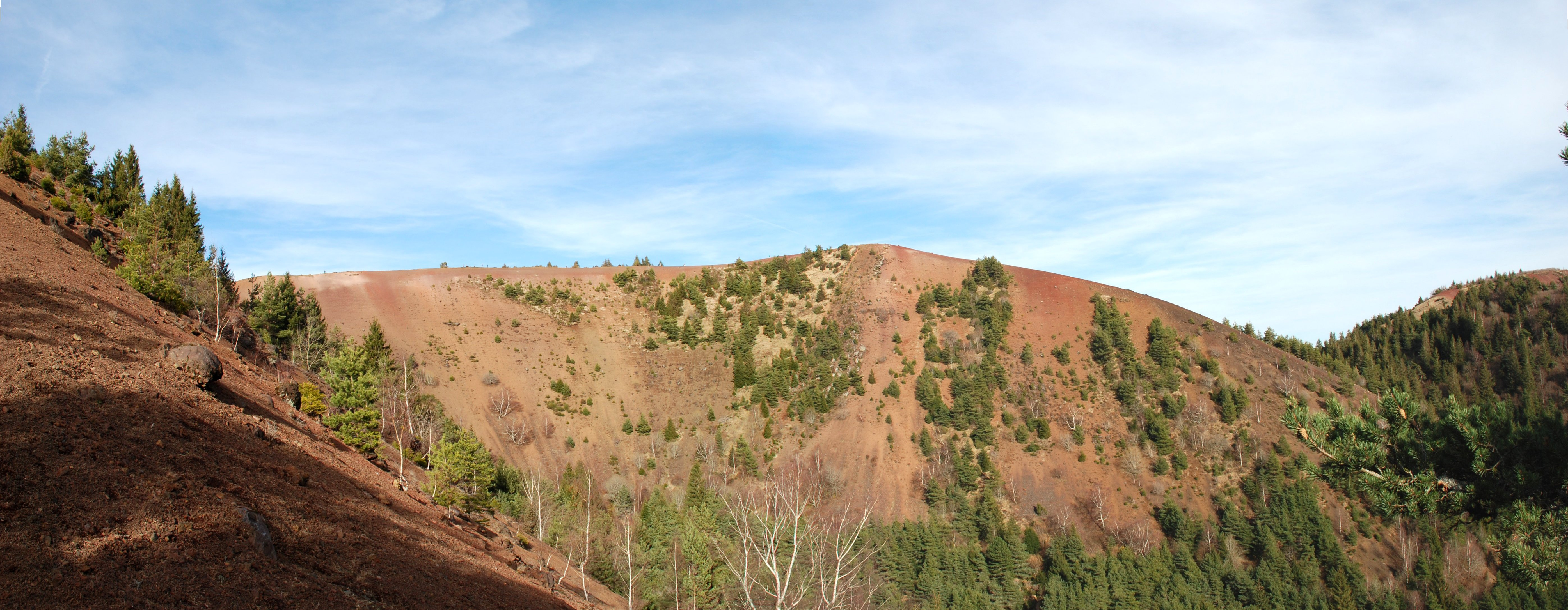 Chaîne des Puys : Puy de Lassolas (1187 m) (Puy-de-Dôme, France).